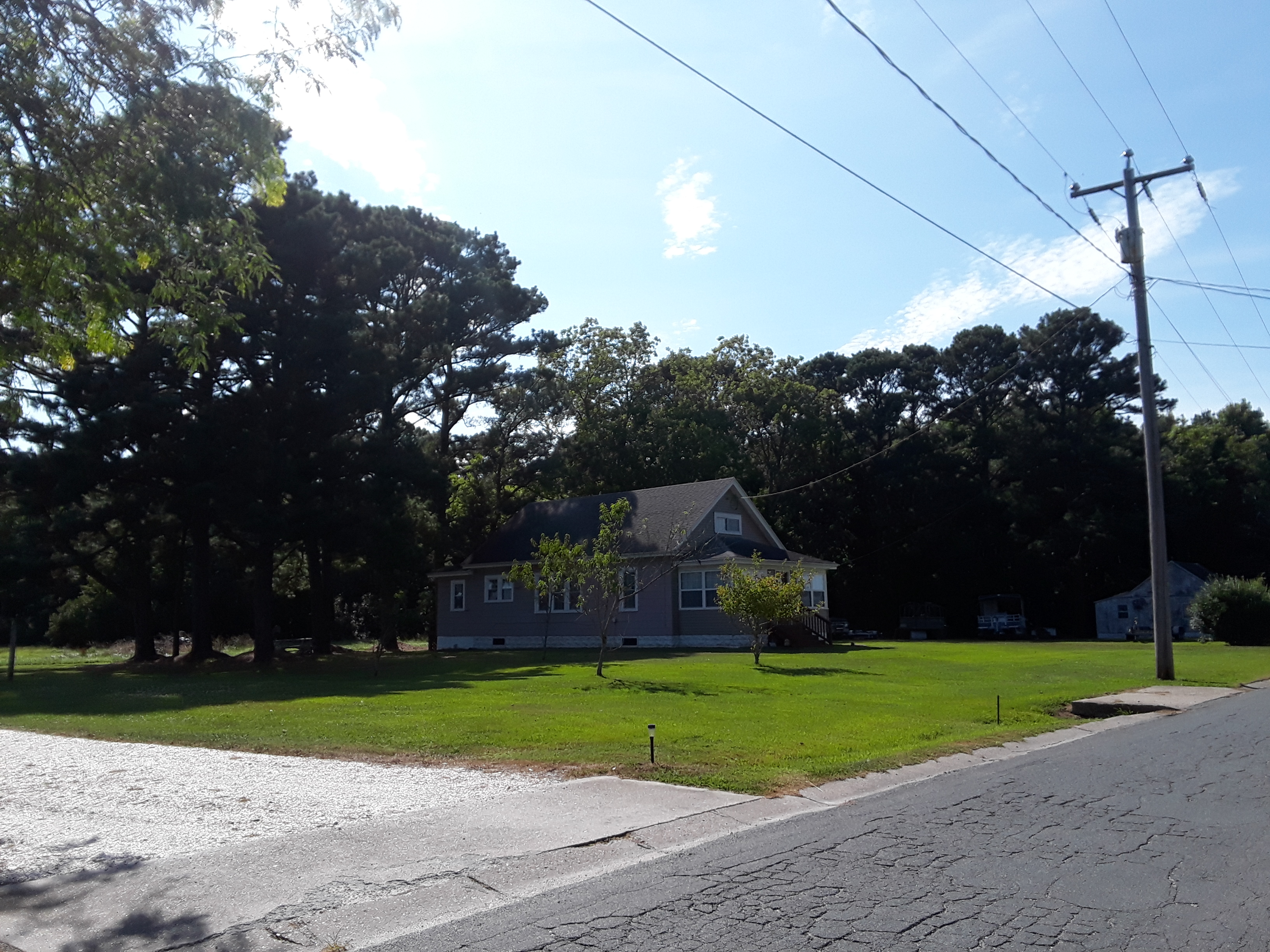 Taken on a visit to the Eastern Shore of Virginia, July 2018